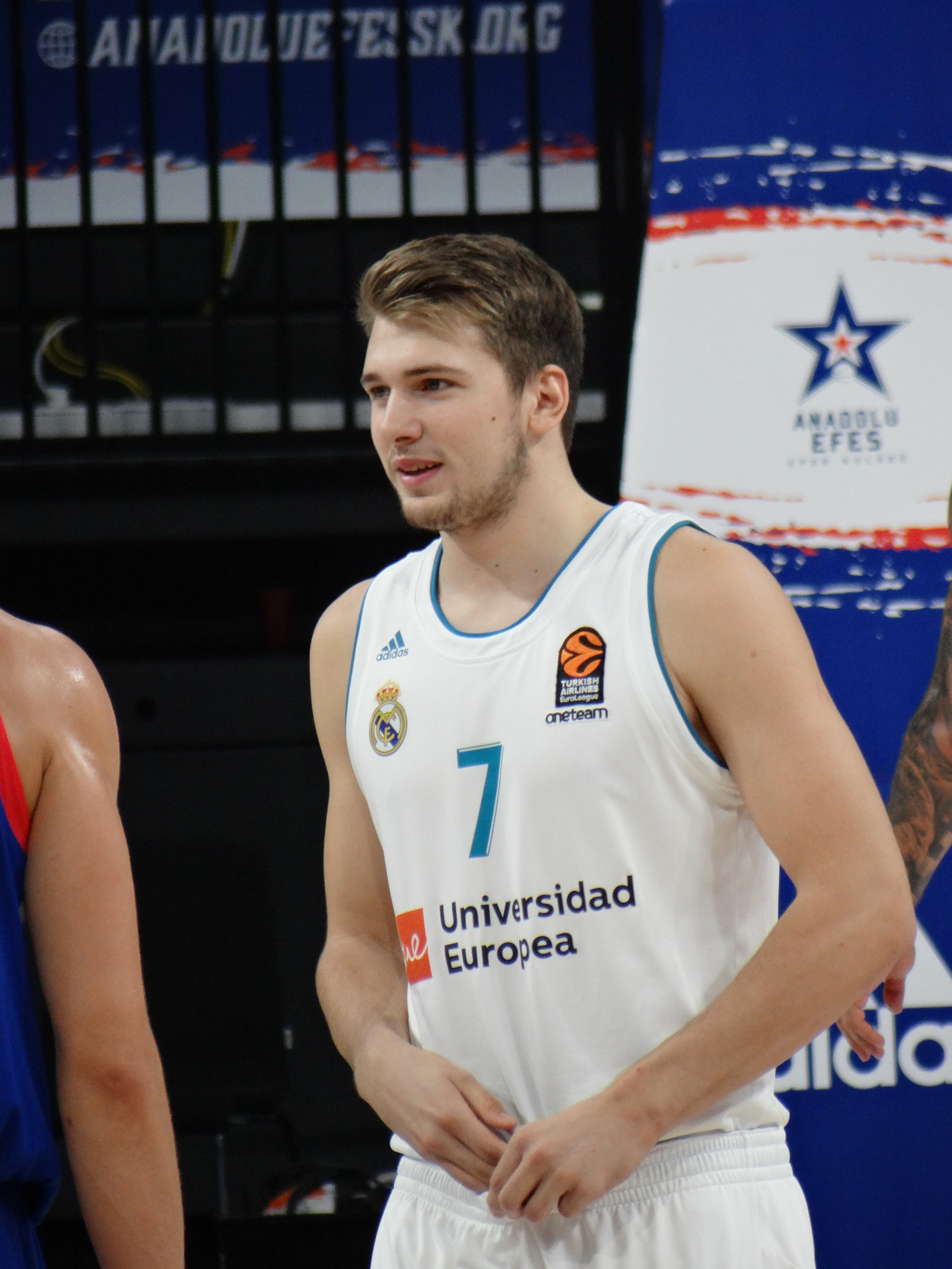 Luka Dončić 7 Real Madrid Baloncesto Euroleague 20171012